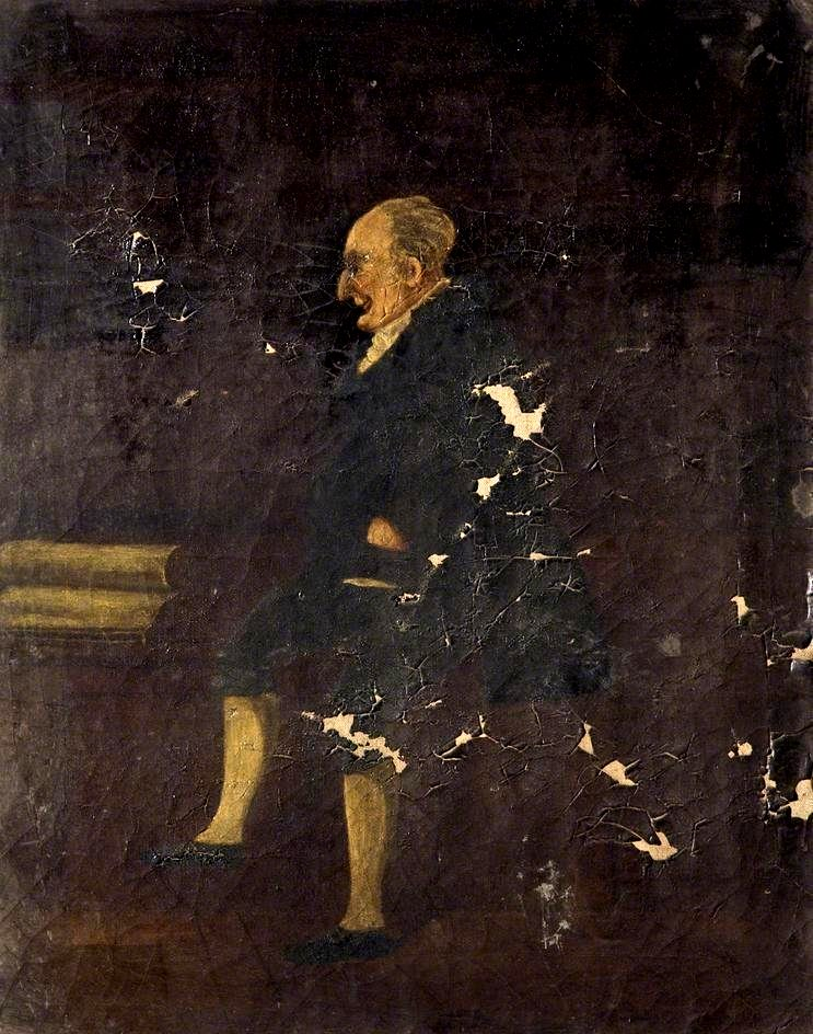 Painting supposedly of James Woods, The Gloucester Miser, in the collection of Gloucestershire County Council.